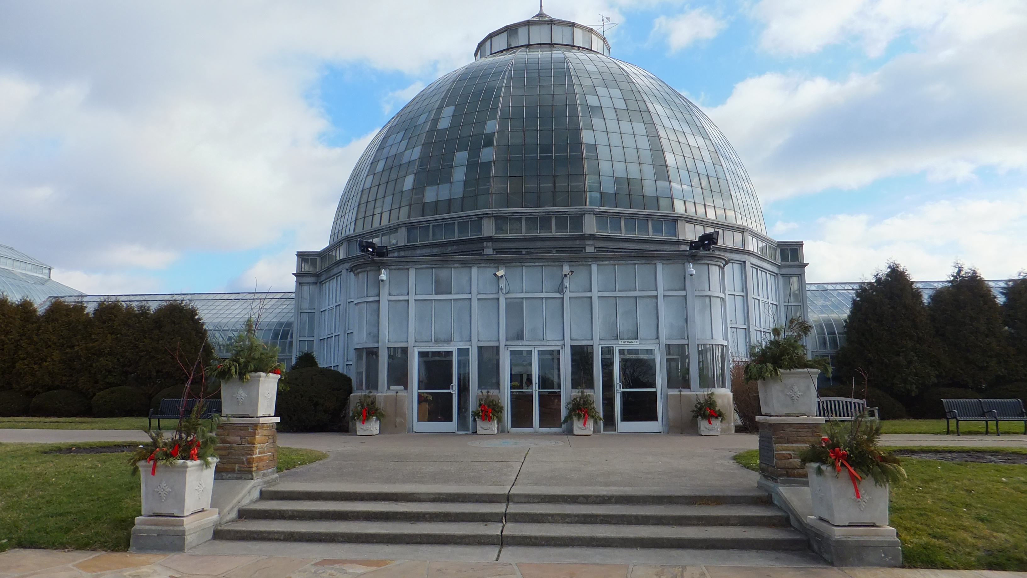 Belle isle Conservatory